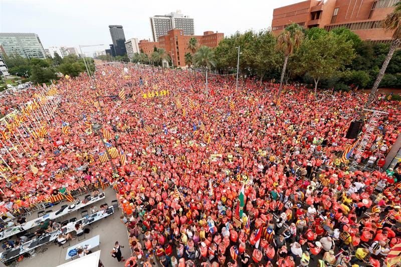 2018, September 11 th - Barcelona - Catalan National Day